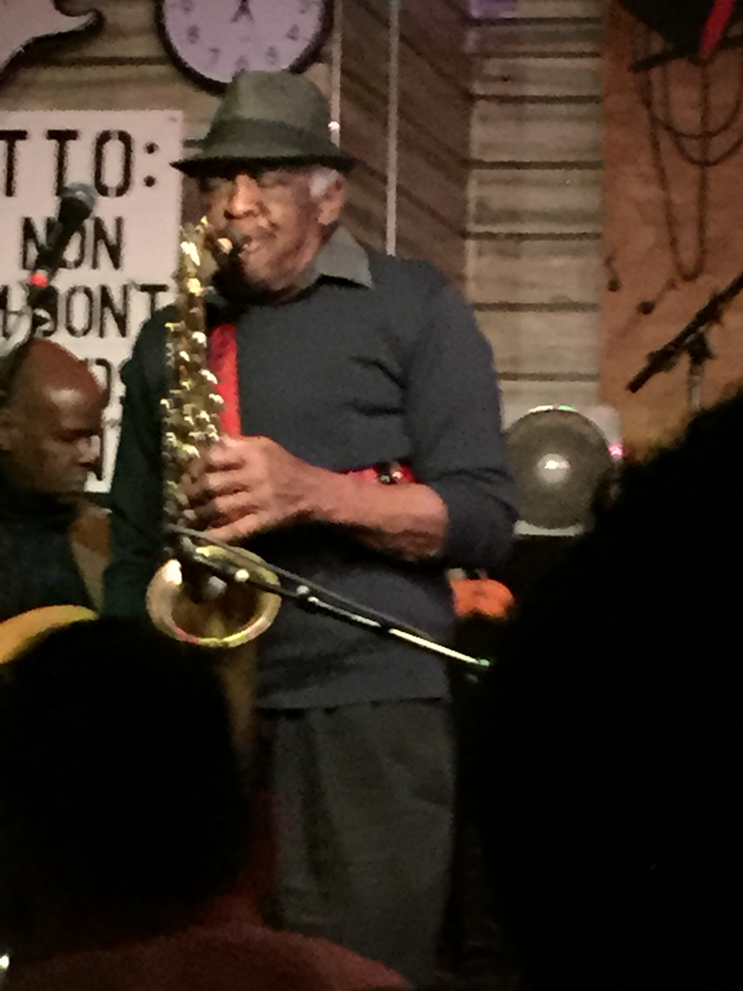 Eddie Shaw performing at the Kingston Mines on February 8, 2015.